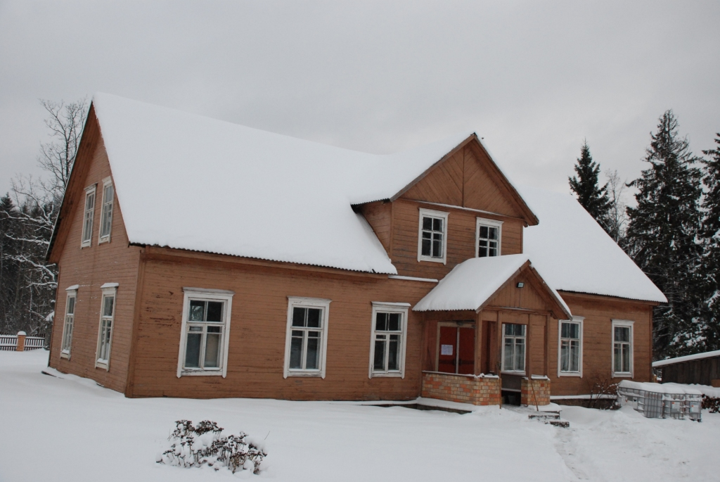 Kuprava Catholic Church